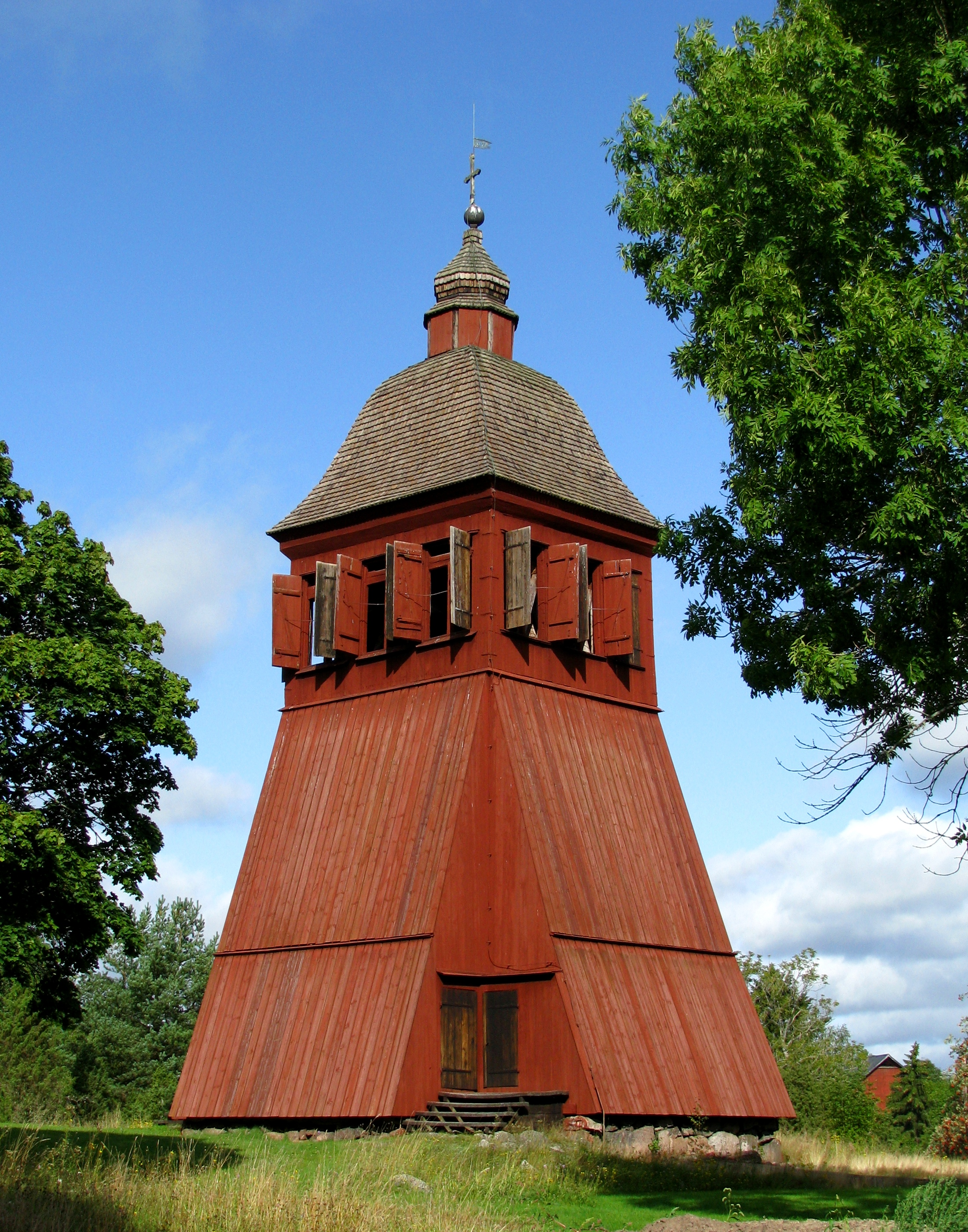 The wooden bell tower of the Länna church in Uppsala, Sweden